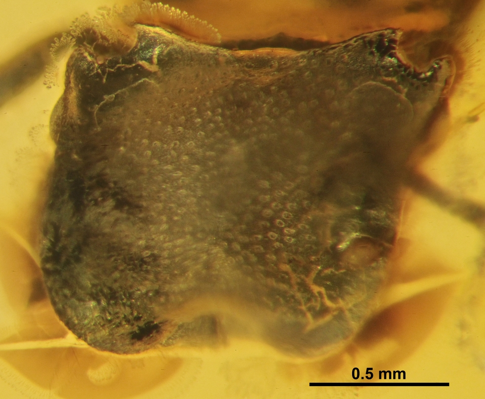 Close-up view of the Cephalotes hispaniolicus holotype worker head. Dominican amber, Burdigalian; Dominican Republic, Hispaniola Staatliches Museum fur Naturkunde, specimen SMNSDO4163